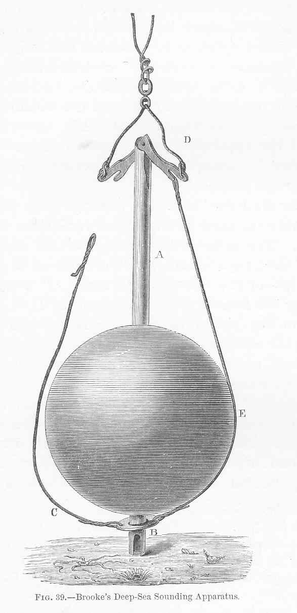 Brooke's Deep-Sea Sounding Apparatus Subject: Sounding and soundings--Equipment and supplies Tag: Vessels